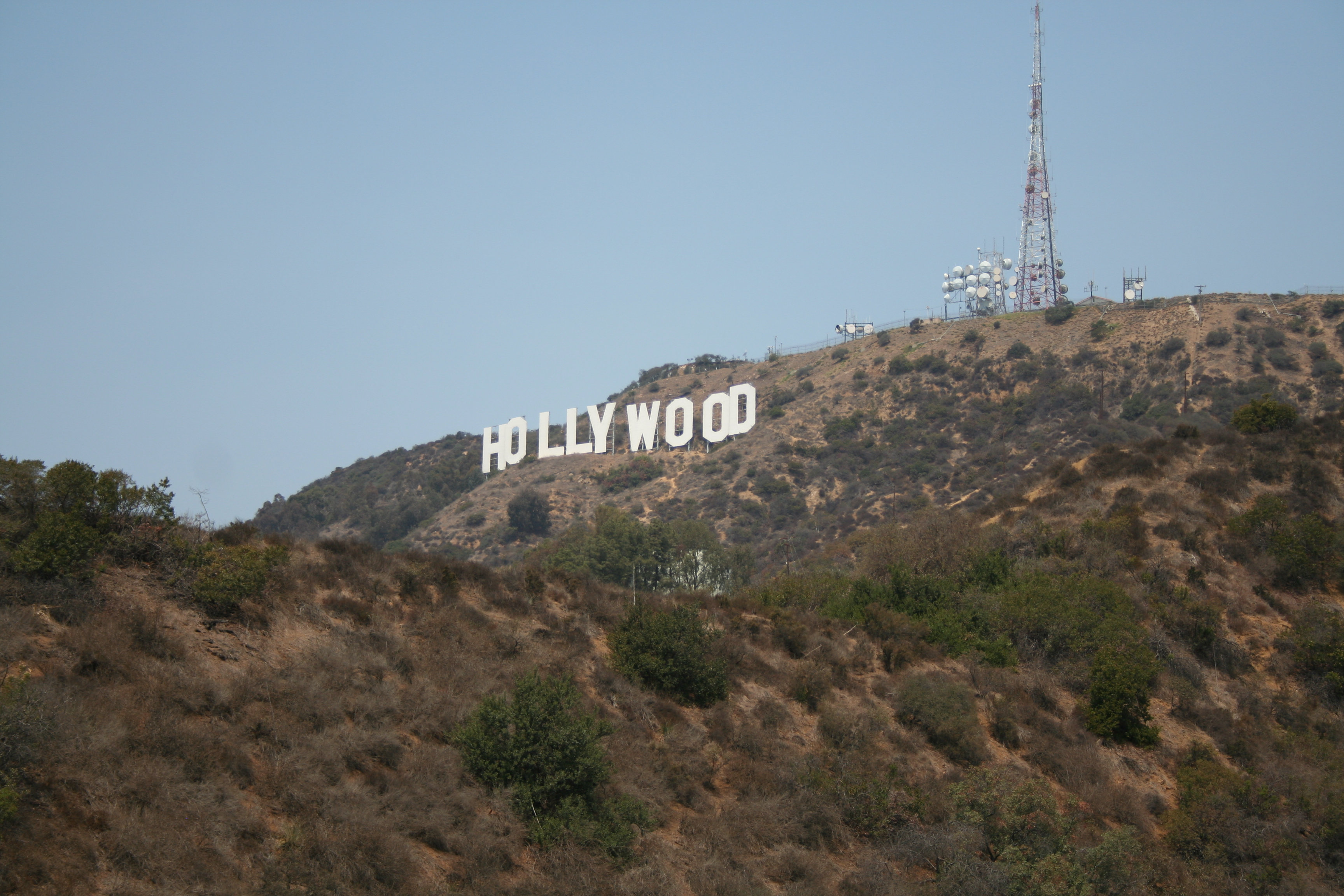 A photograph taken of the Hollywood Sign in Los Angeles.